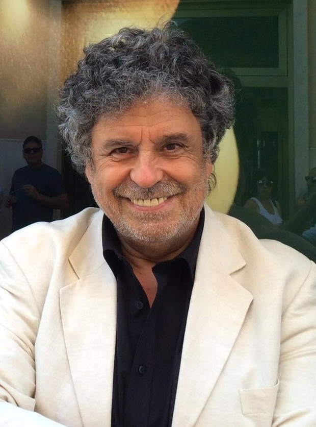 picture of M.M. in Verona